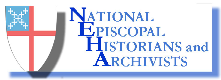 Logo I created as the websexton of the National Episcopal Historians and Archivists website.